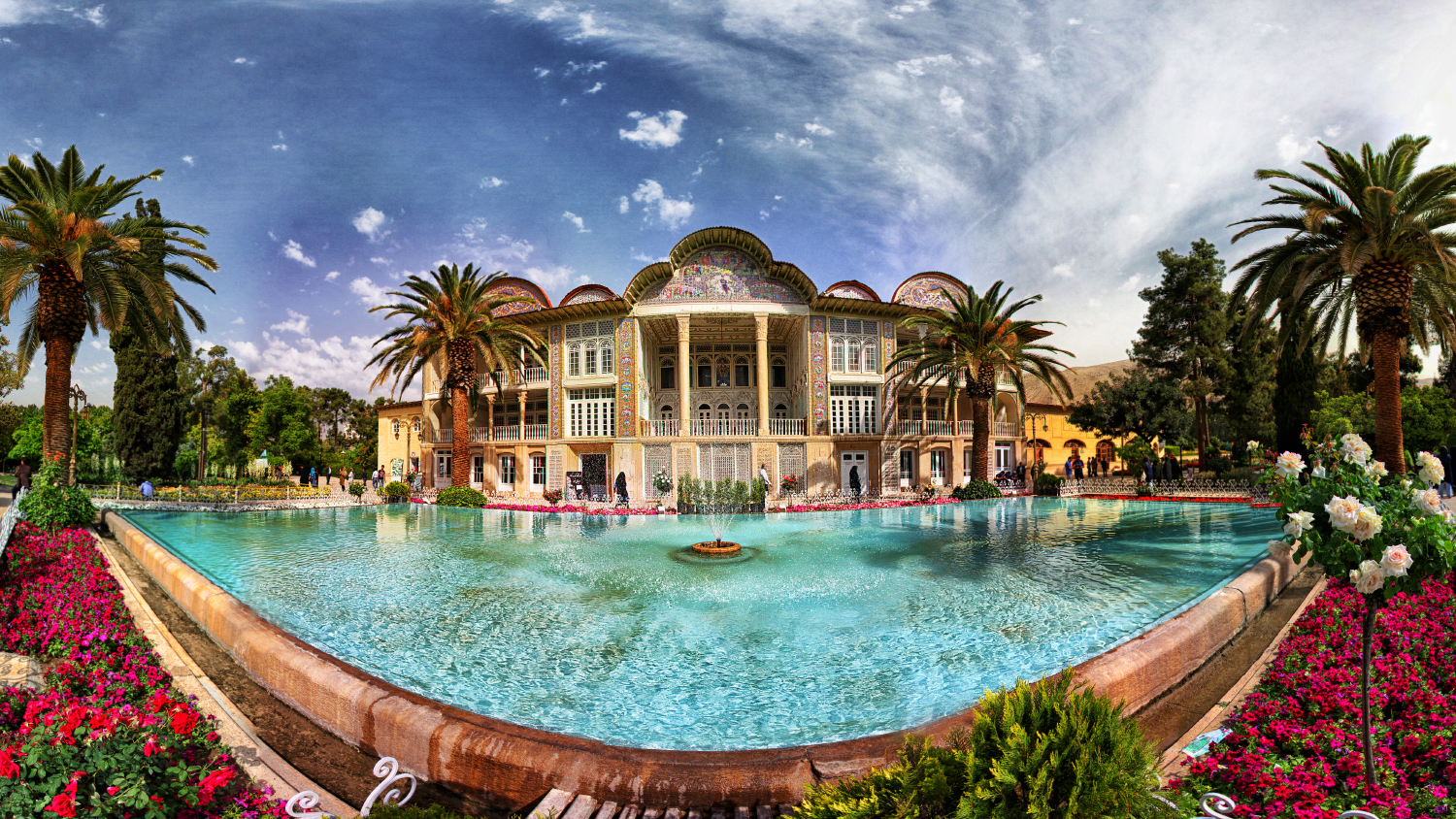 Eram Garden is a historic Persian garden in Shiraz, Iran.The garden, and the building within it, are located at the northern shore of the Khoshk River in the Fars provinc